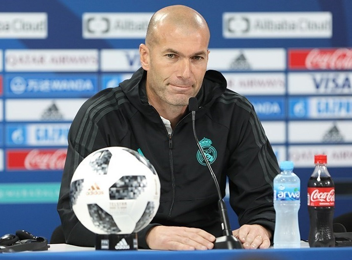 Zinedine Zidane, Real Madrid manager in press conference before match against Al-Jazira in FIFA Club World Cup